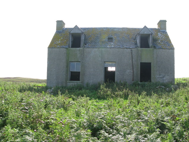 Deserted Croft at Sidhean Rossinish